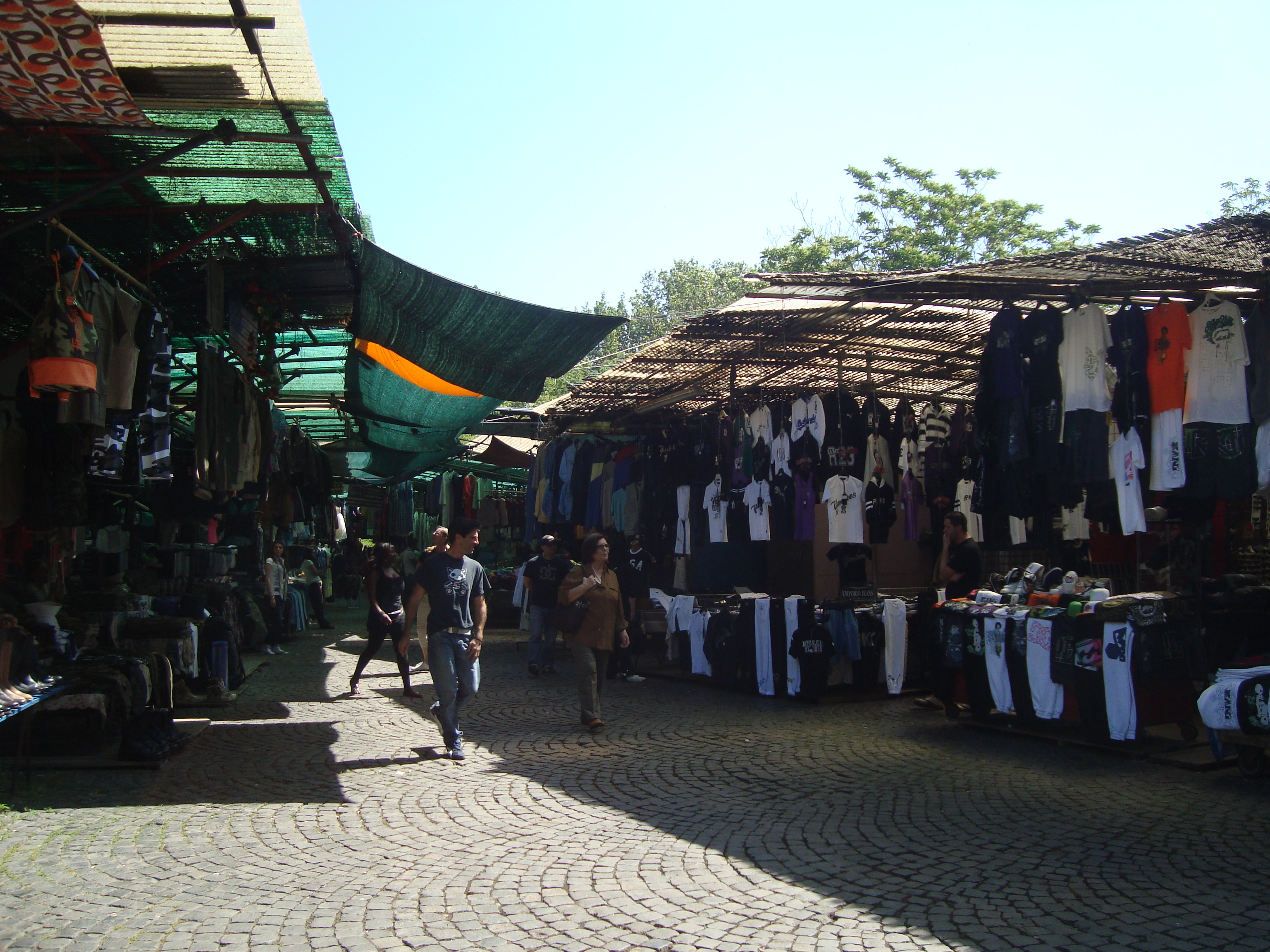 The open-air market in via Sannio, Rome